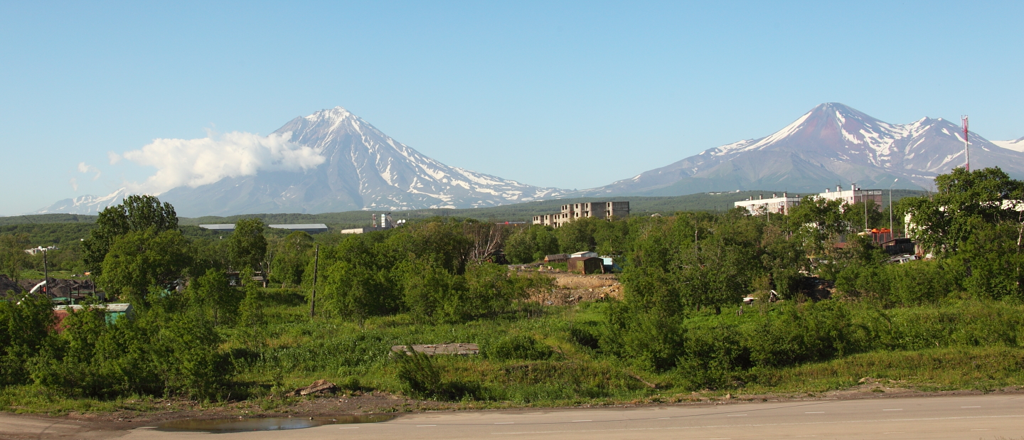 Koryaksky and Avachinsky volcanoes in Kamchatka, Russia, seen from a hotel room in Petropavlovsk-Kamchatsky.